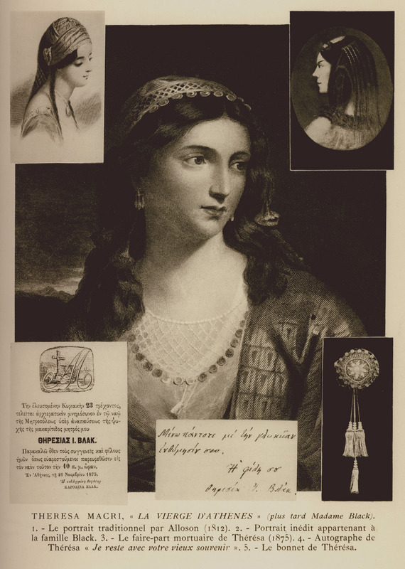 Theresa Makri, La vierge d’Athènes, (plus tard Madame Black)